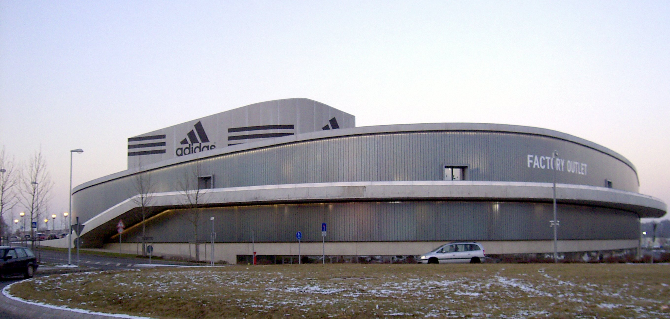 The factory outlet of the adidas-Salomon AG in its Hometown Herzogenaurach.